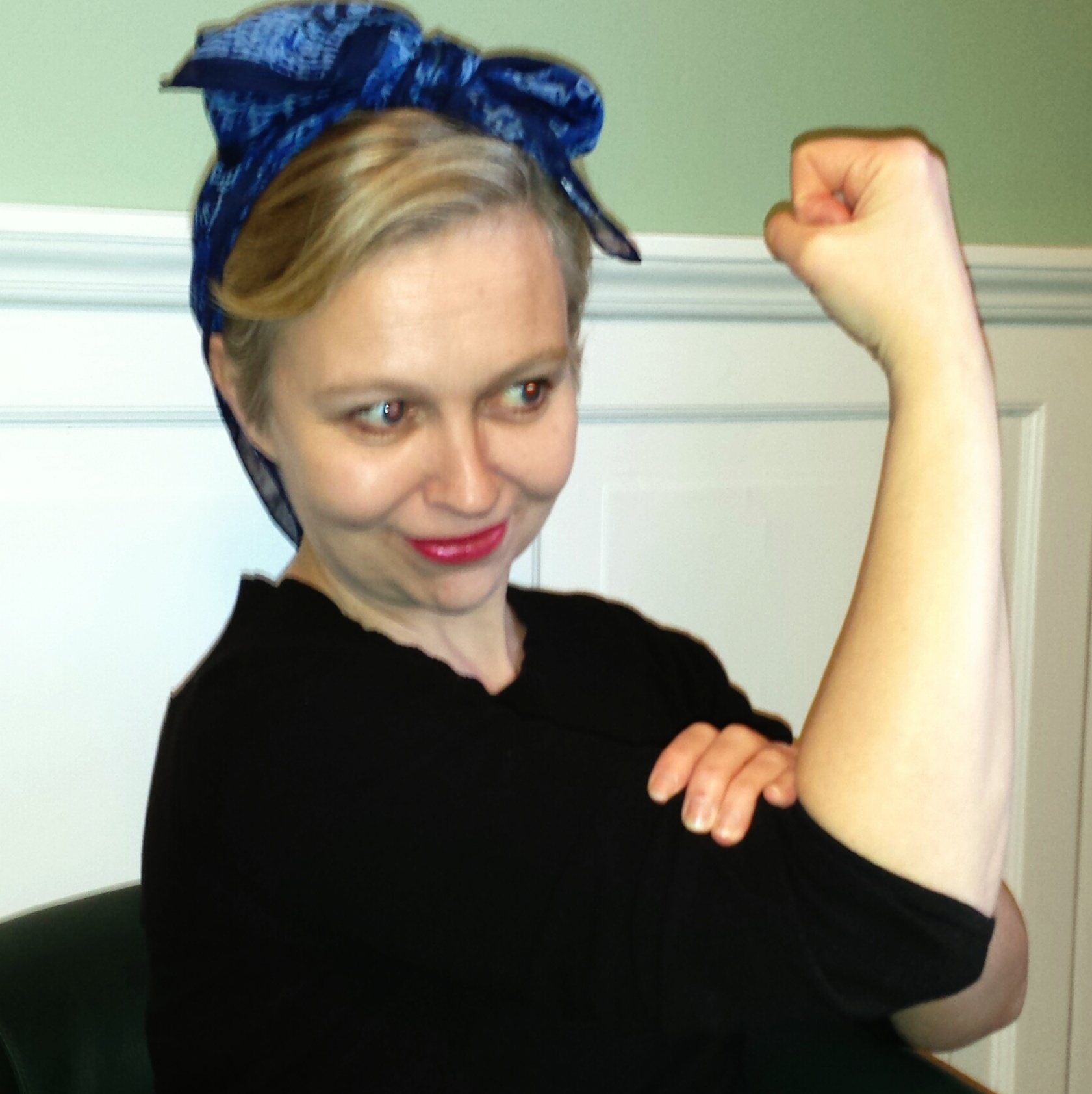 Sigríður Ingibjörg Ingadóttir a member of parliament in Iceland for the social democrats poses as "Rosie the Riveter" in an American wartime propaganda poster "We Can Do It!" produced by J. Howard Miller in 1943 for Westinghouse Electric as an inspirational image to boost worker morale. Keywords: Sigríður Ingibjörg Ingadóttir, We Can Do It?, Rosie the Riveter